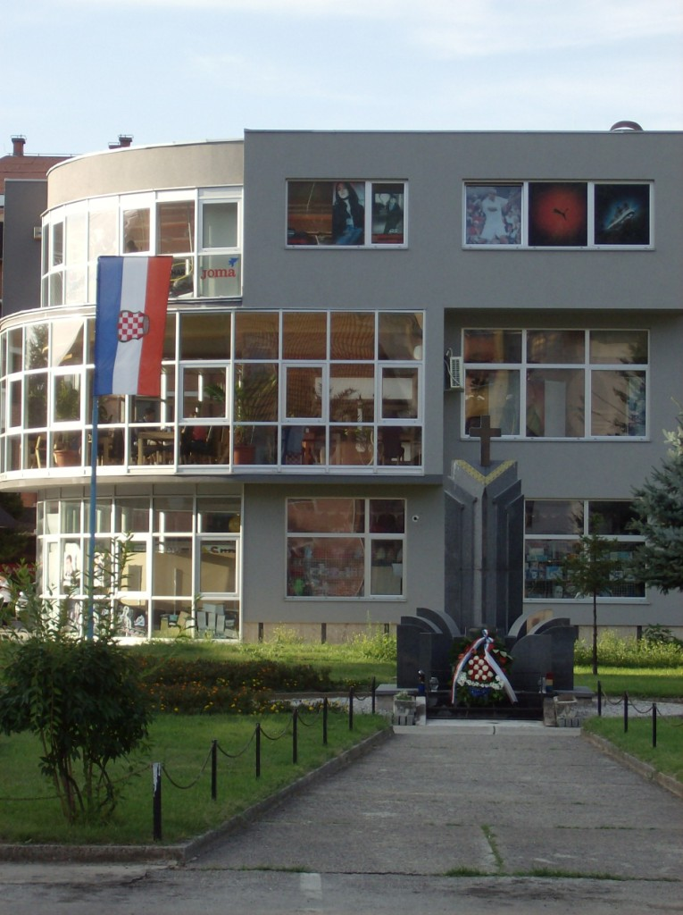 Žepče